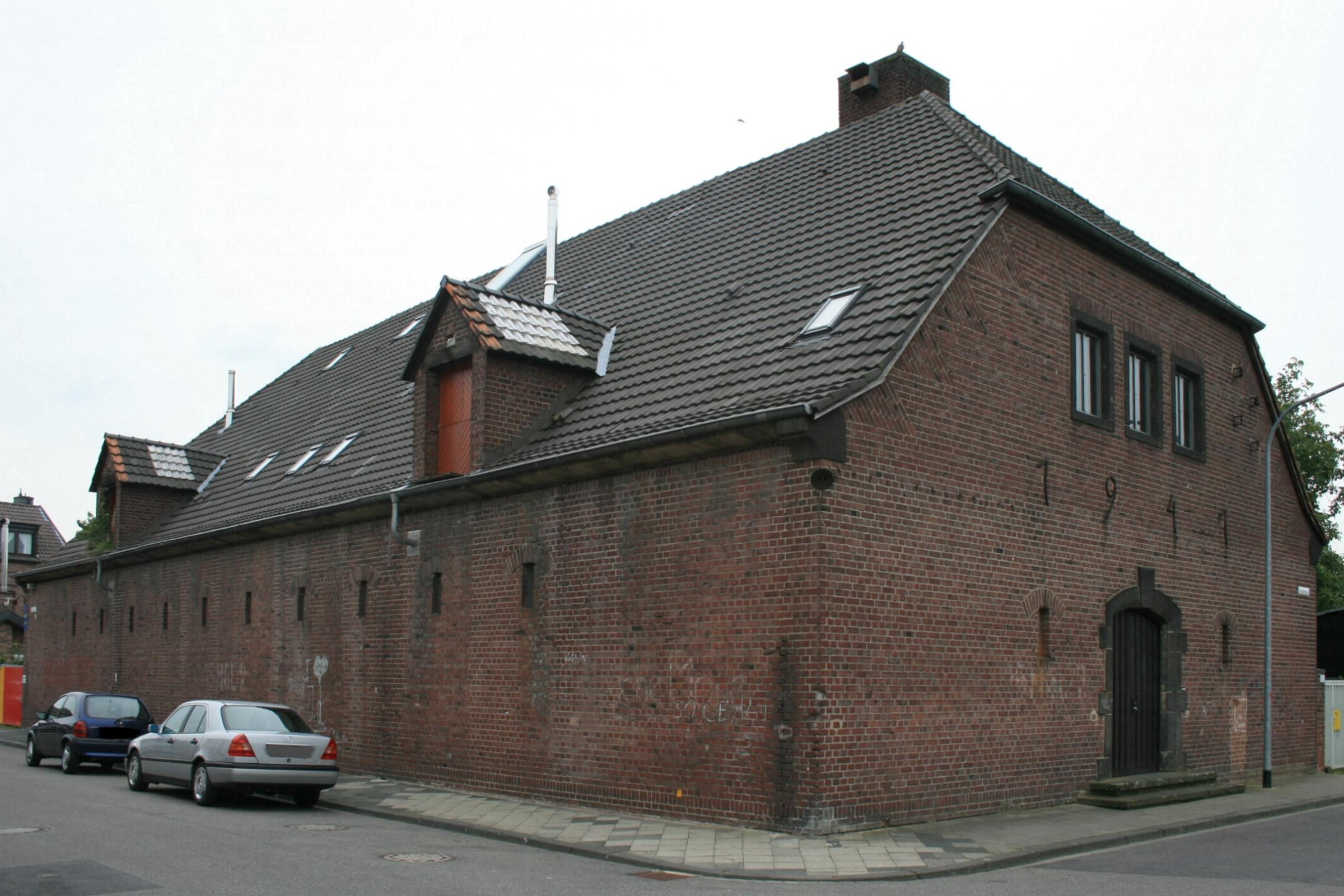 Cultural heritage monument No. O 009 in Mönchengladbach